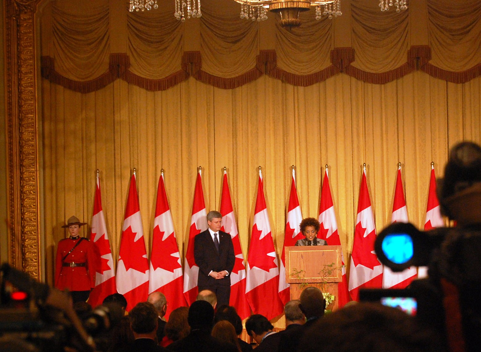 The Right Honourable Michaelle Jean, Governor General of Canada, and the Right Honourable Stephen Harper, Prime Minister of Canada, officially welcome foreign heads of State and heads of Government to the Vancouver 2010 Olympic Winter Games February 12 at the Fairmont Hotel Vancouver.